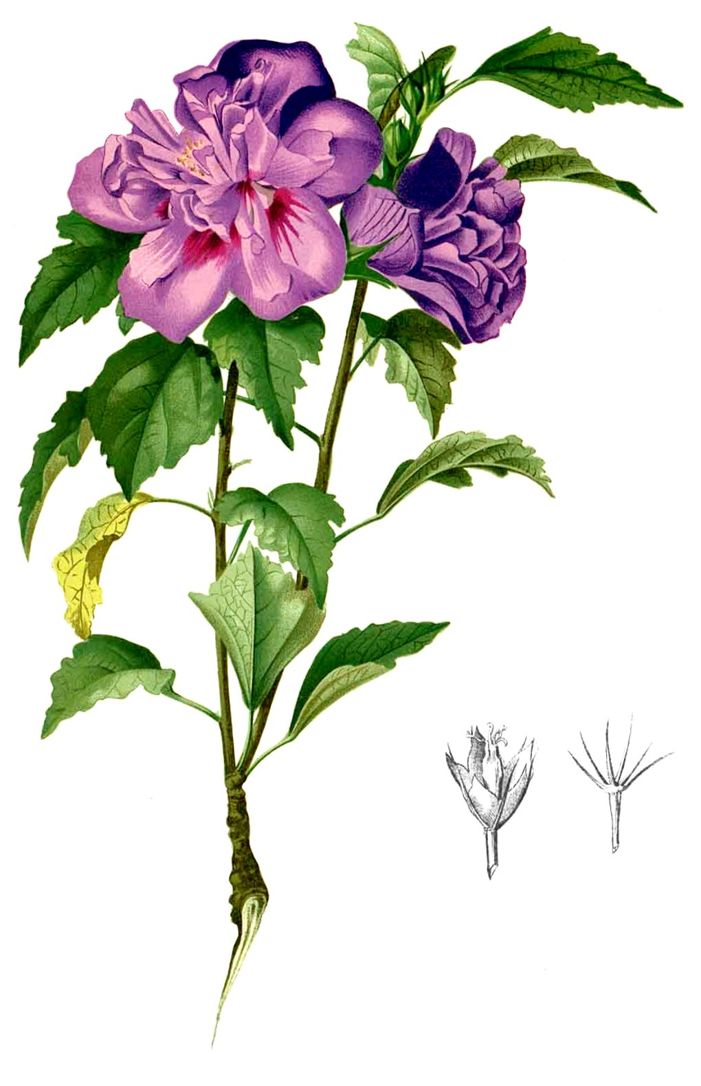 Plate from book